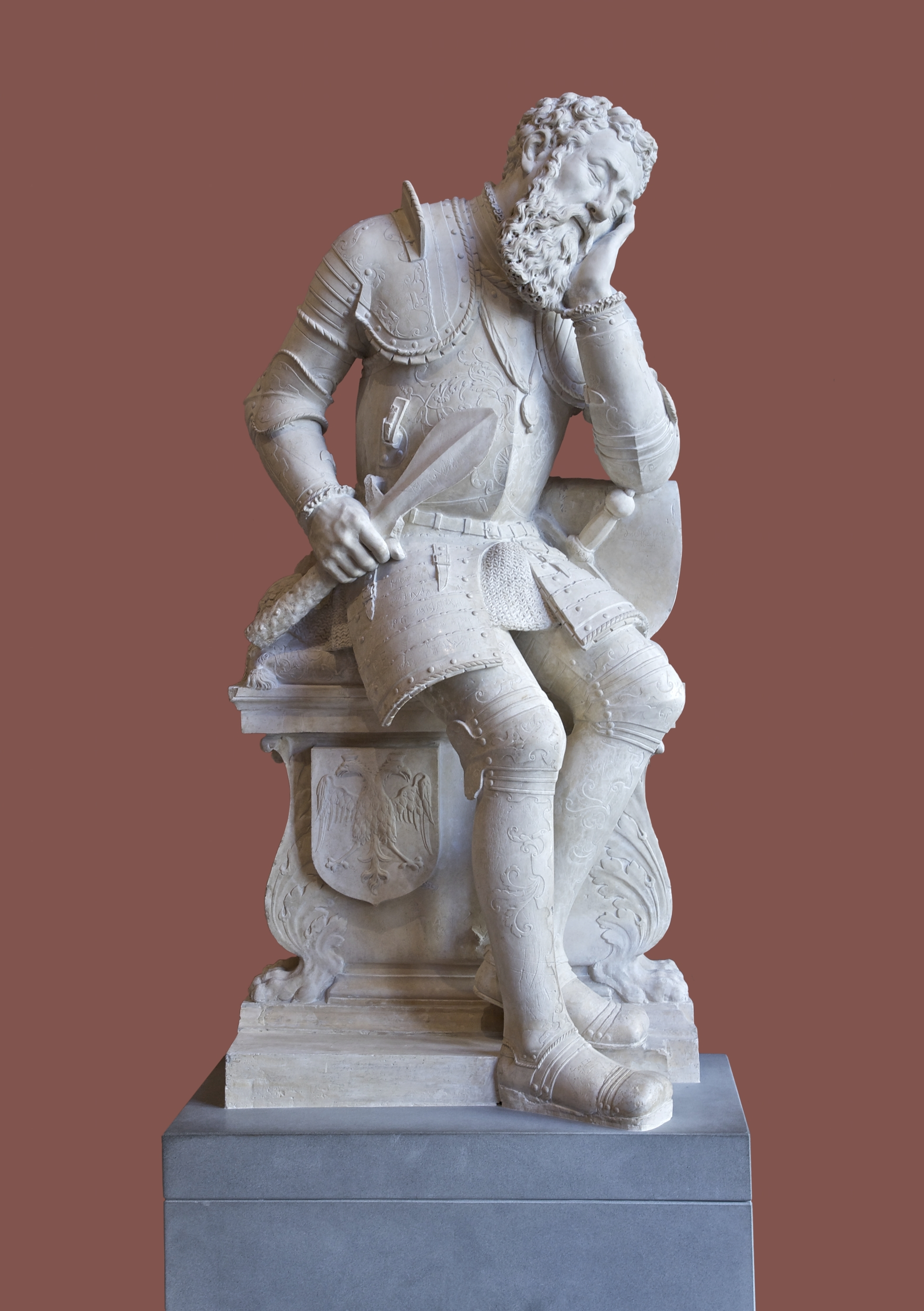 Charles de Maigny, Captain of the Gardes de la Porte of the King, sitting, asleep.